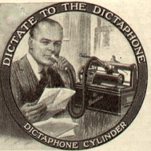 Dictaphone Cylinder, from 1917 magazine ad Category:United States history images